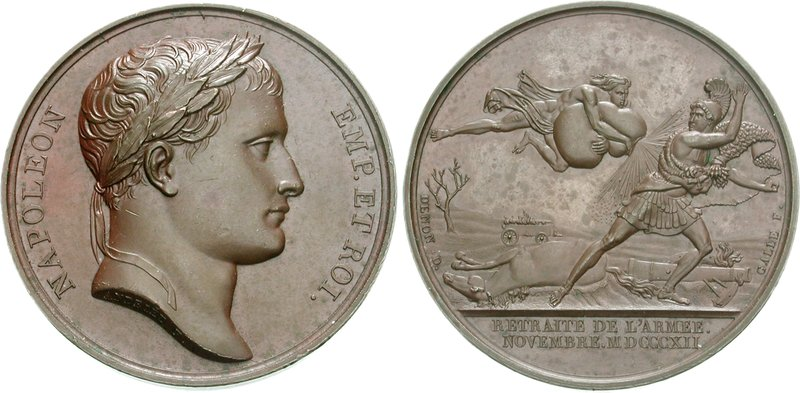 France, French Invasion of 1812. Napoléon Bonaparte. 1804-1814. Æ Medal (40mm, 38.04 g, 12h). Commemorating the French retreat from Russia. Dated November 1812. Laureate head right French warrior, in classical garb, standing right, shielding himself from the wind blown by Boreas; in background, supply wagon and dismounted cannon in flames, and a dead horse. Bramsen 1168. Superb EF, brown surfaces. With NGC ticket graded MS 62 BN.